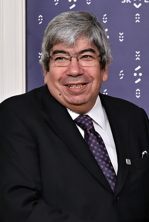 Assembly of the Republic of Portugal Mr Eduardo Ferro Rodrigues, President - National Council of the Slovak Republic Mr Andrej Danko, Speaker Of The National Council of The Slovak Republic. Photo Rastislav Polak.